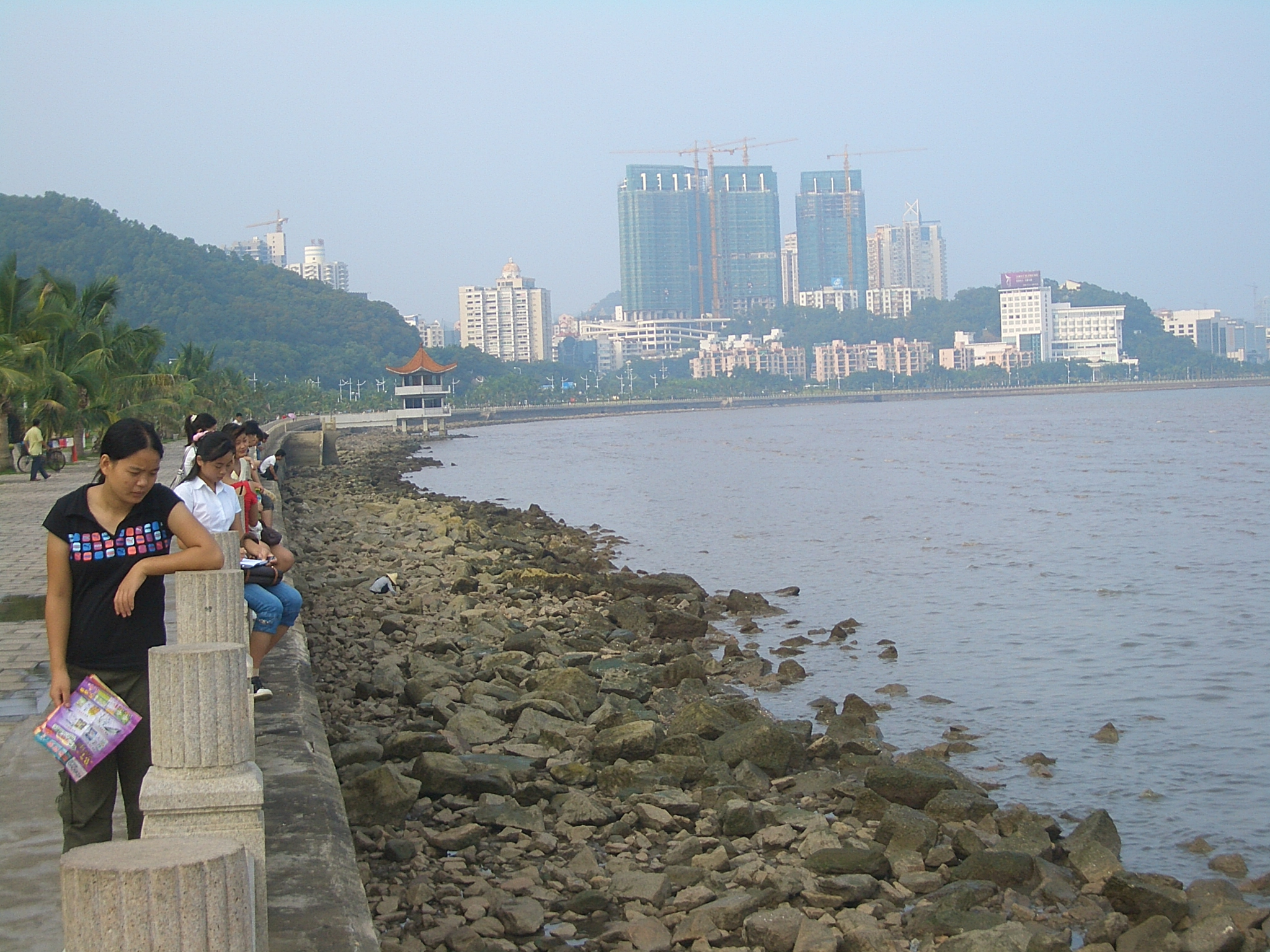 Qinglü Embankment in Zhuhai, along the shore of the Pearl River Estuary. Looking north east from Gongbei toward Jiuzhou Harbor.